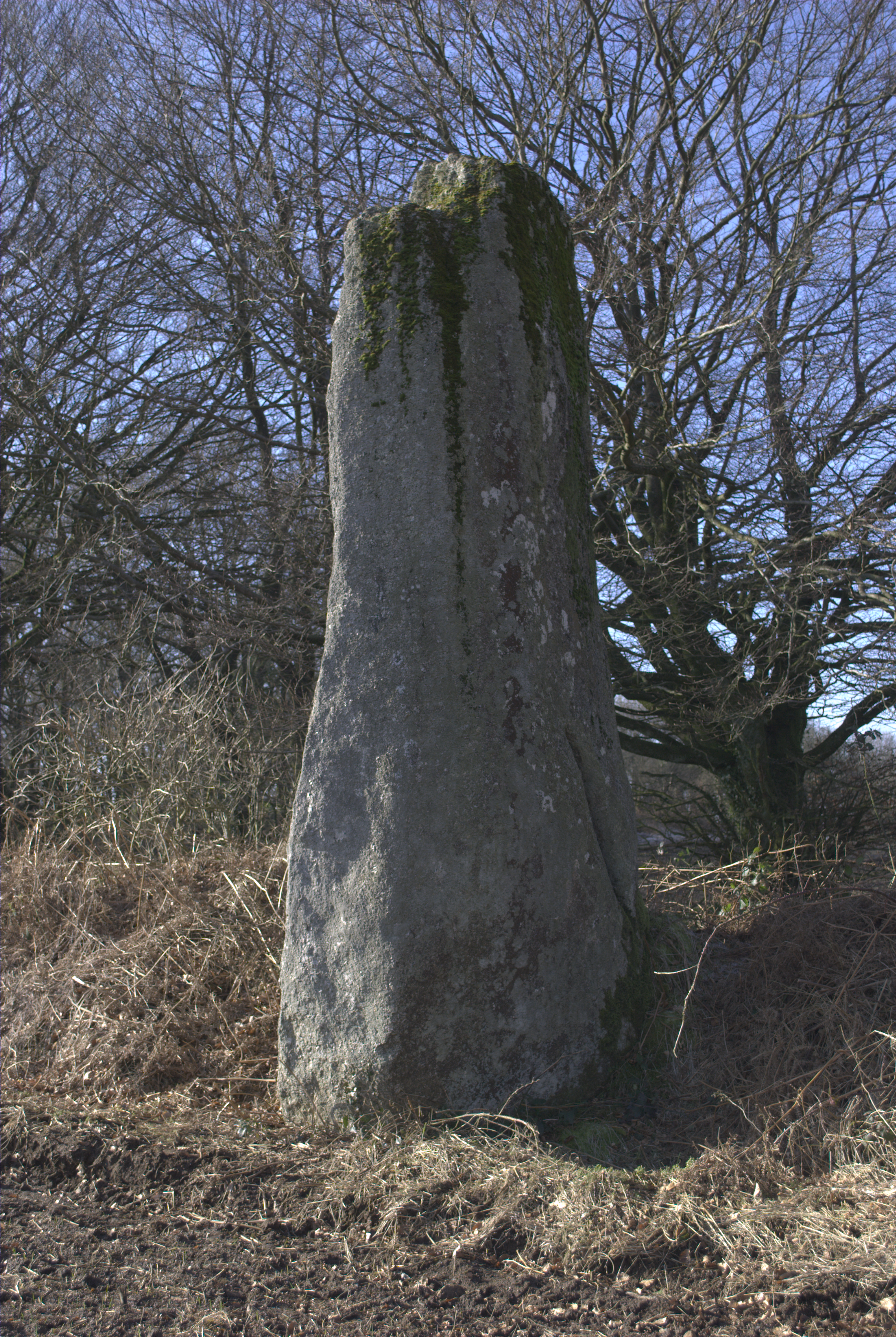 Menez Krec'h an Arc'hant, menhir located close to the locality of Kerivoa in Bourbriac (France).